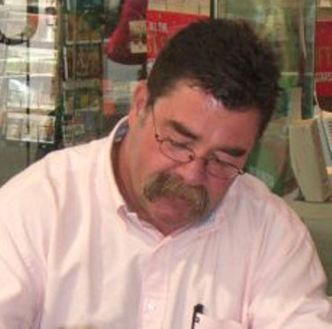 Former Australian cricketer David Boon